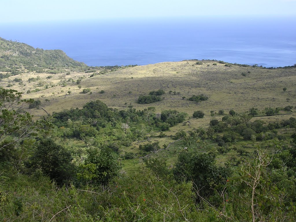 Landscape view of Atauro island, regenerating secondary forest and old agricultural fields